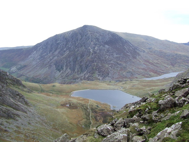 Pen Yr Ole Wen Pen Yr Ole Wen as seen from above Llyn Idwal